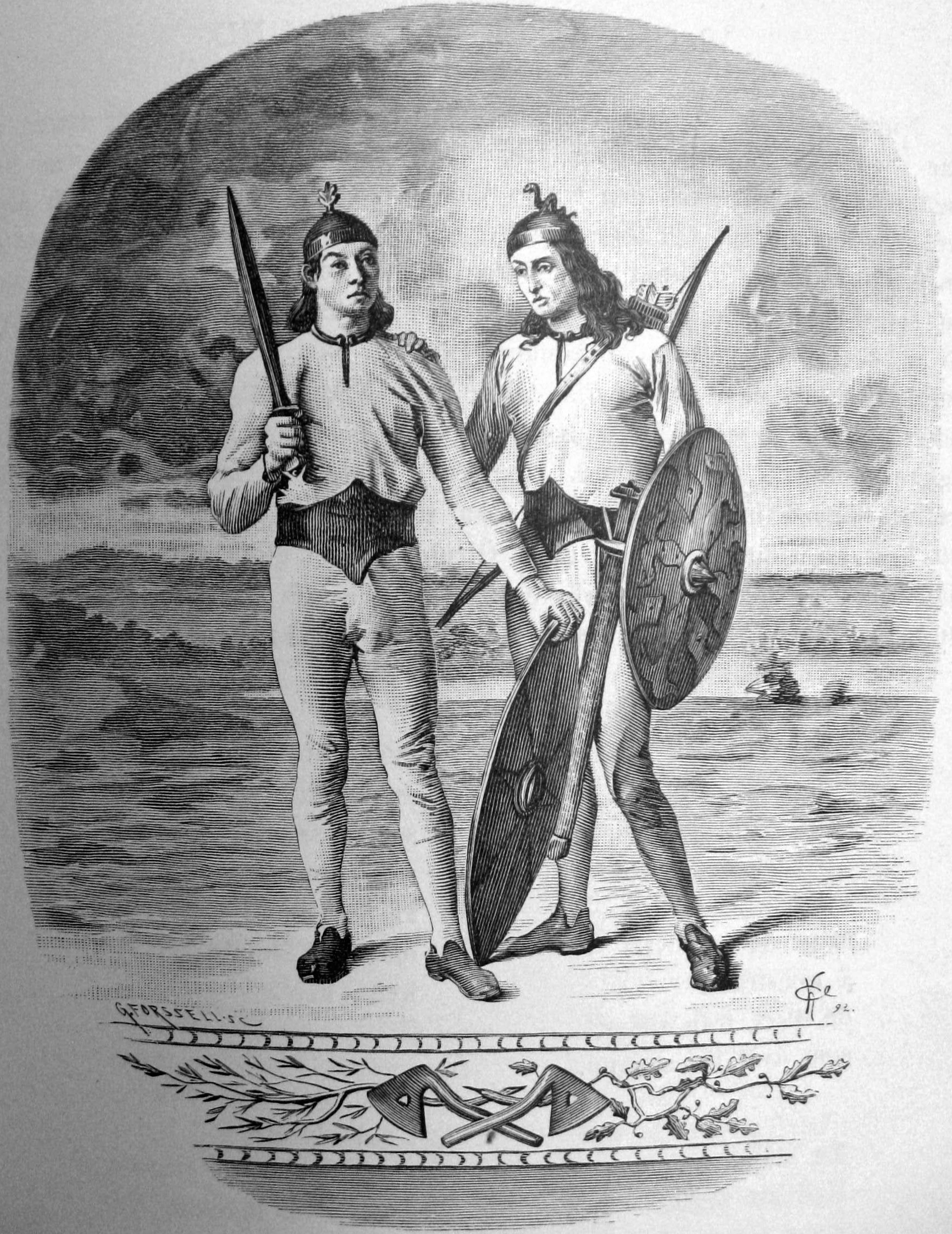 The engraving shows two men with shields and weapons. Their clothes are more or less identical but they have different ornaments on their helmets. In the lower left part there is the signature of Gunnar Forssell, the xylographer. In the lower right corner there is the signature of Axel Kulle, the original artist. The image list on page 468 in the book describes this image as Vidar och Vale.